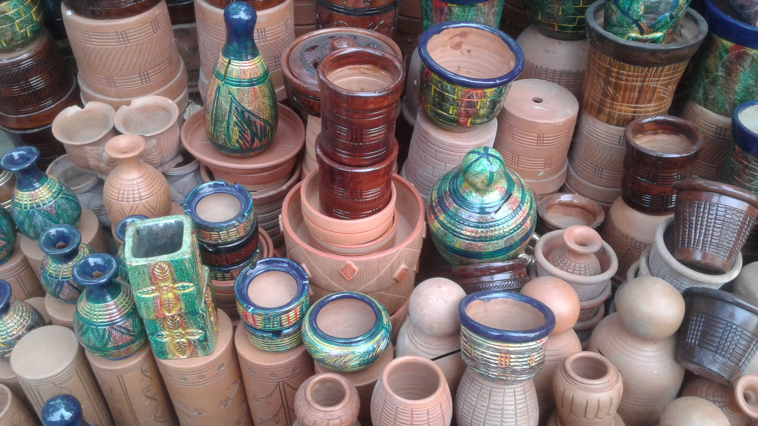 Traditional pottery of Bengal, Bangladesh